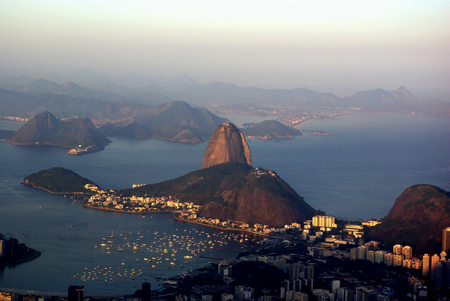 The Sugar-Loaf - Rio de Janeiro - Brazil